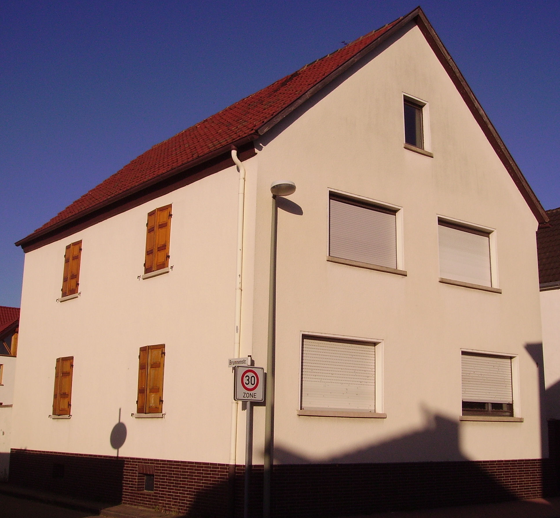 view of Mutterstadt, Germany